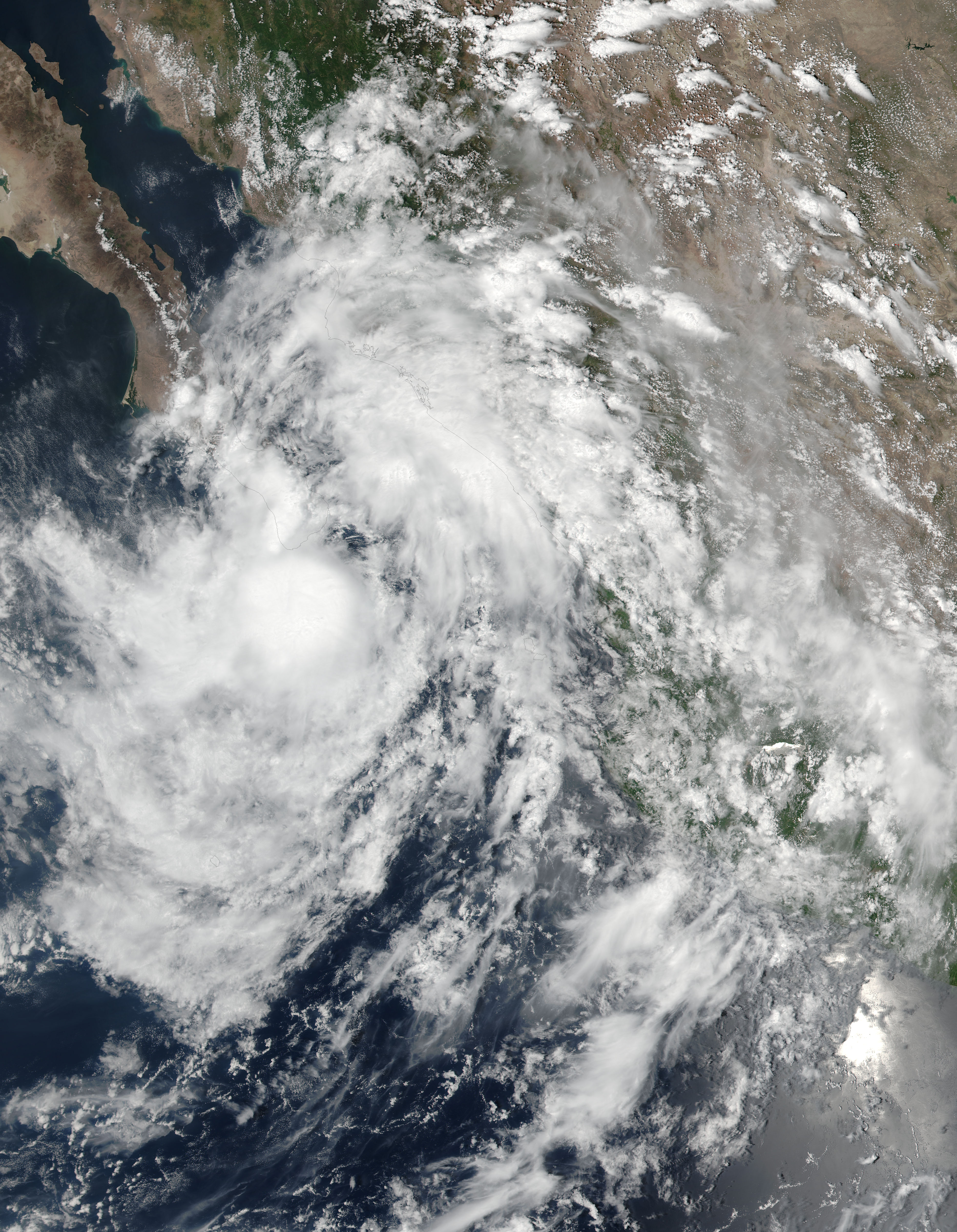 Tropical Storm Javier (11E) over Mexico